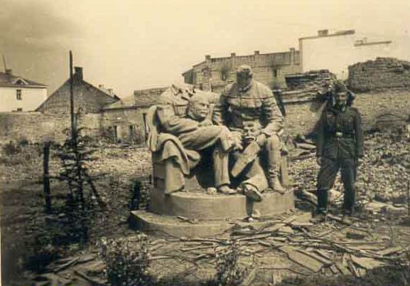 Destroyed monument